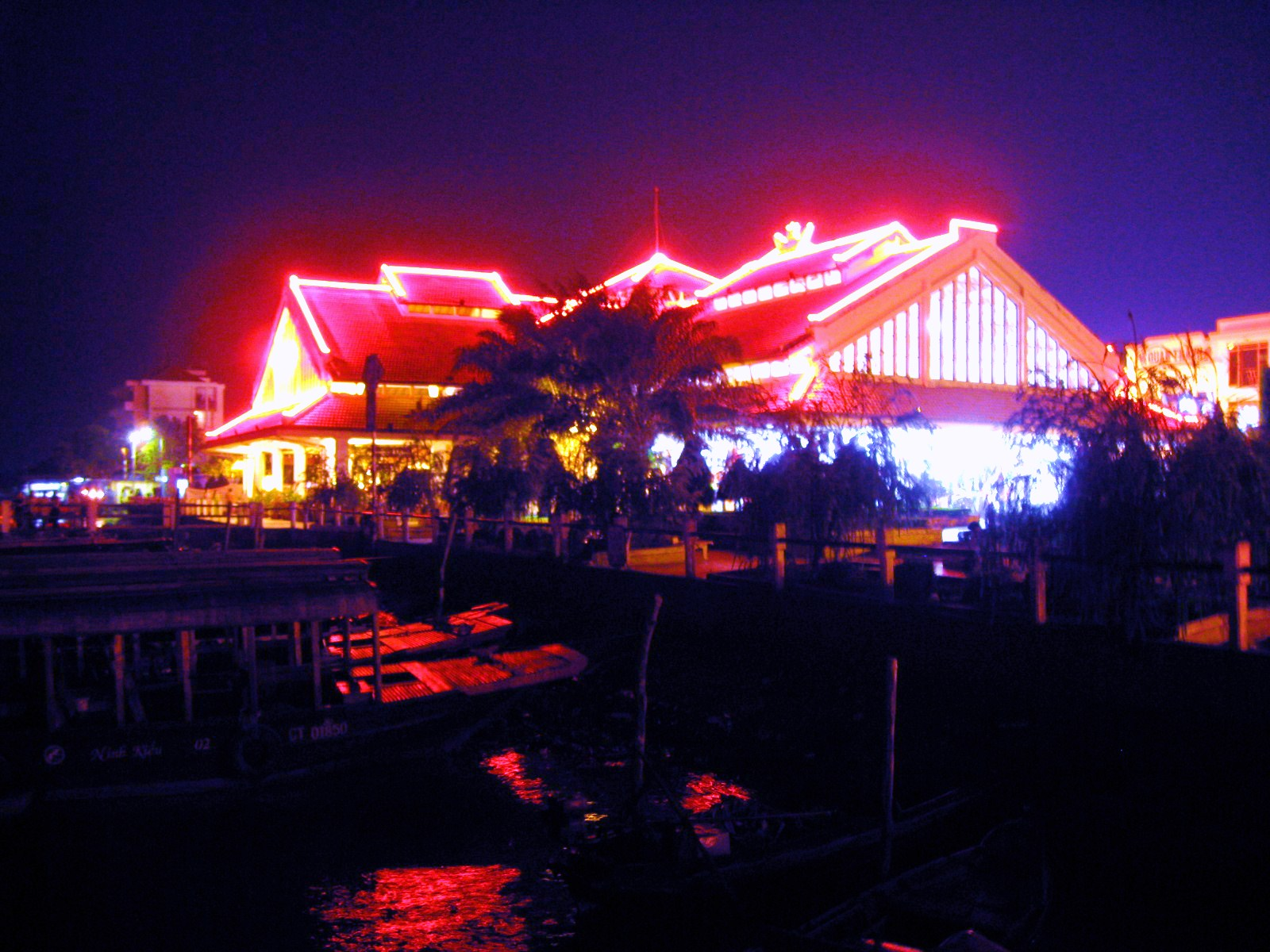 Ninh Kieu, Can Tho, Viet Nam